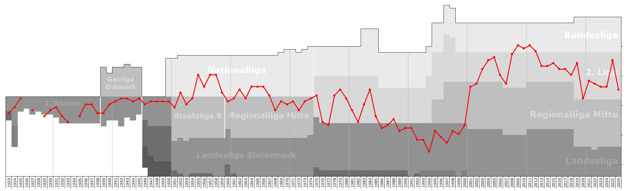 Chart of end-season table positions of Kapfenberg in the Austrian football league system. Data source: RSSSF, , regiowiki.at, stfv.at, wikipedia